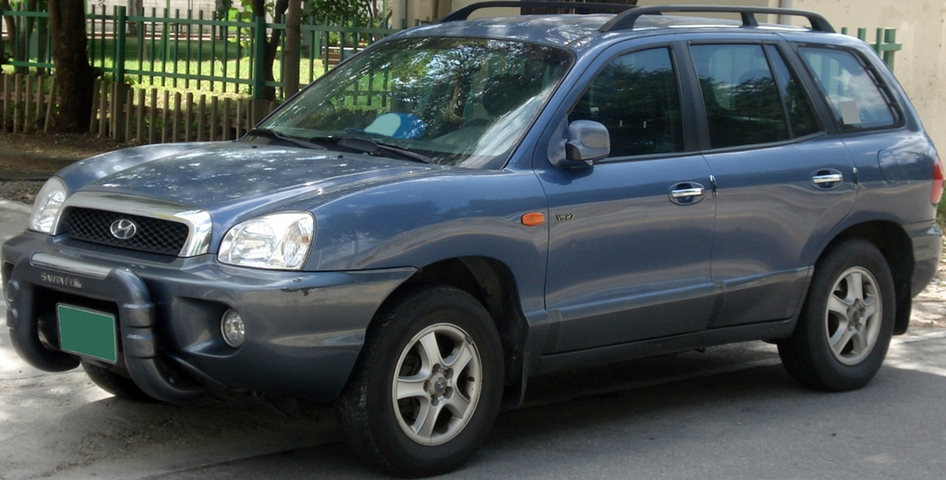 Hyundai Santa Fe